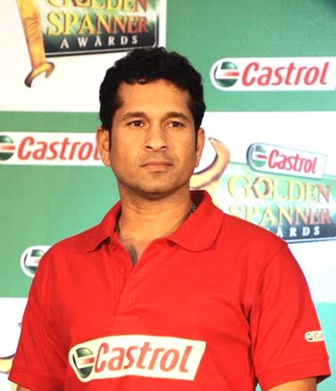 Sachin at Castrol Golden Spanner Awards